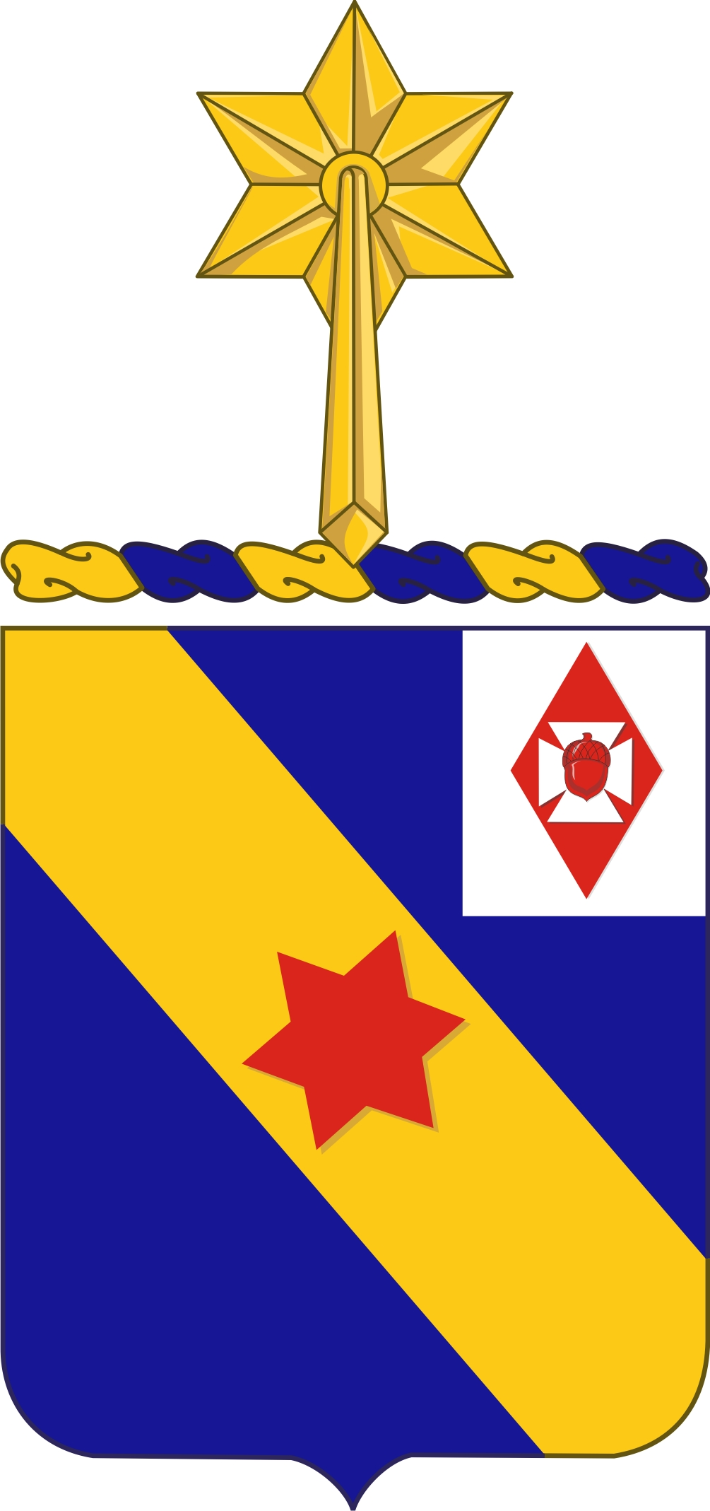 52d Infantry Regimental Coat of Arms